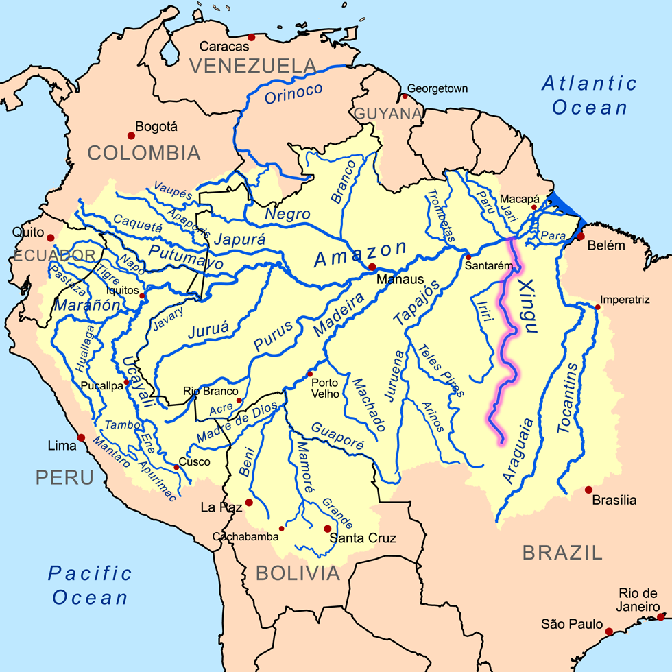 This is a map of the Amazon River drainage basin with the Xingu River highlighted.